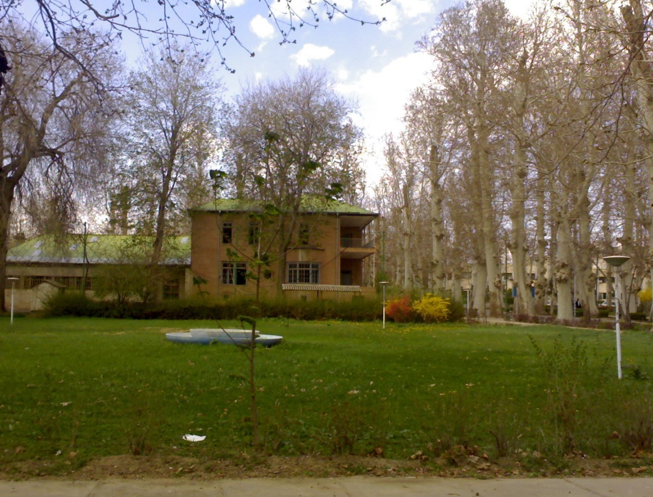 Wooden Building, Urmia University Urmia, West Azerbaijan, Iran